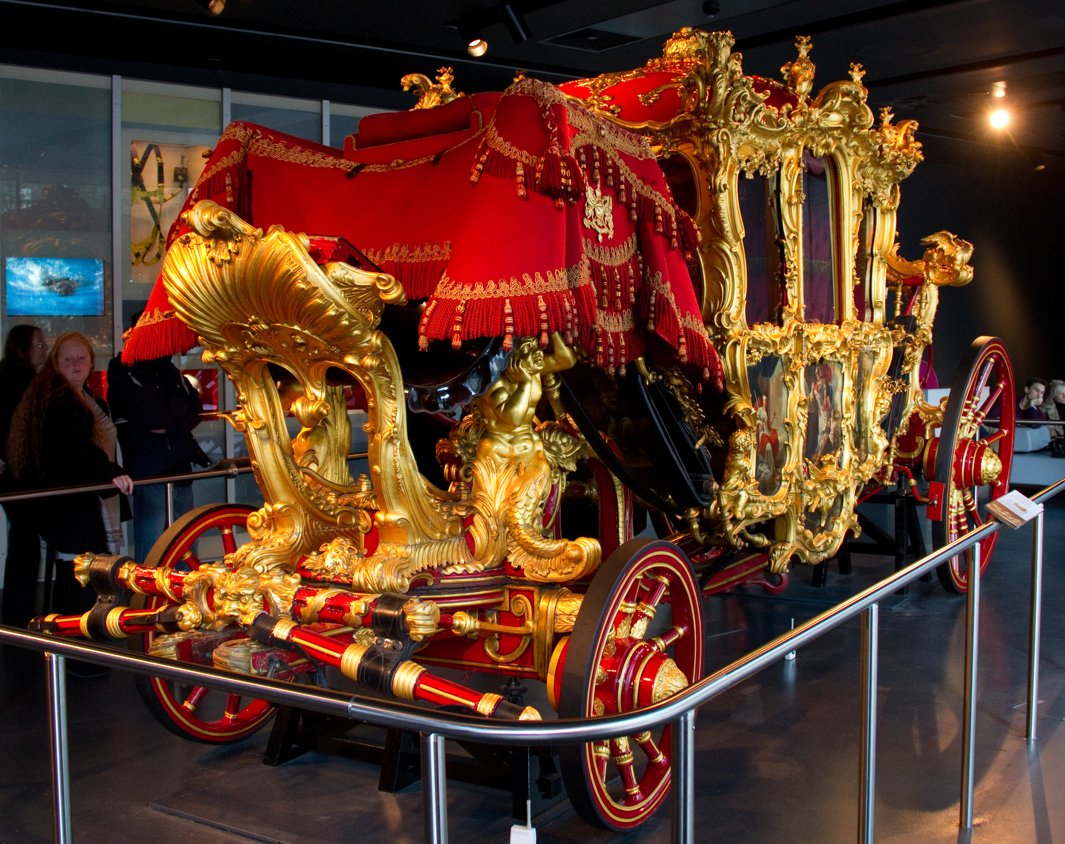 Lord Mayors Coach